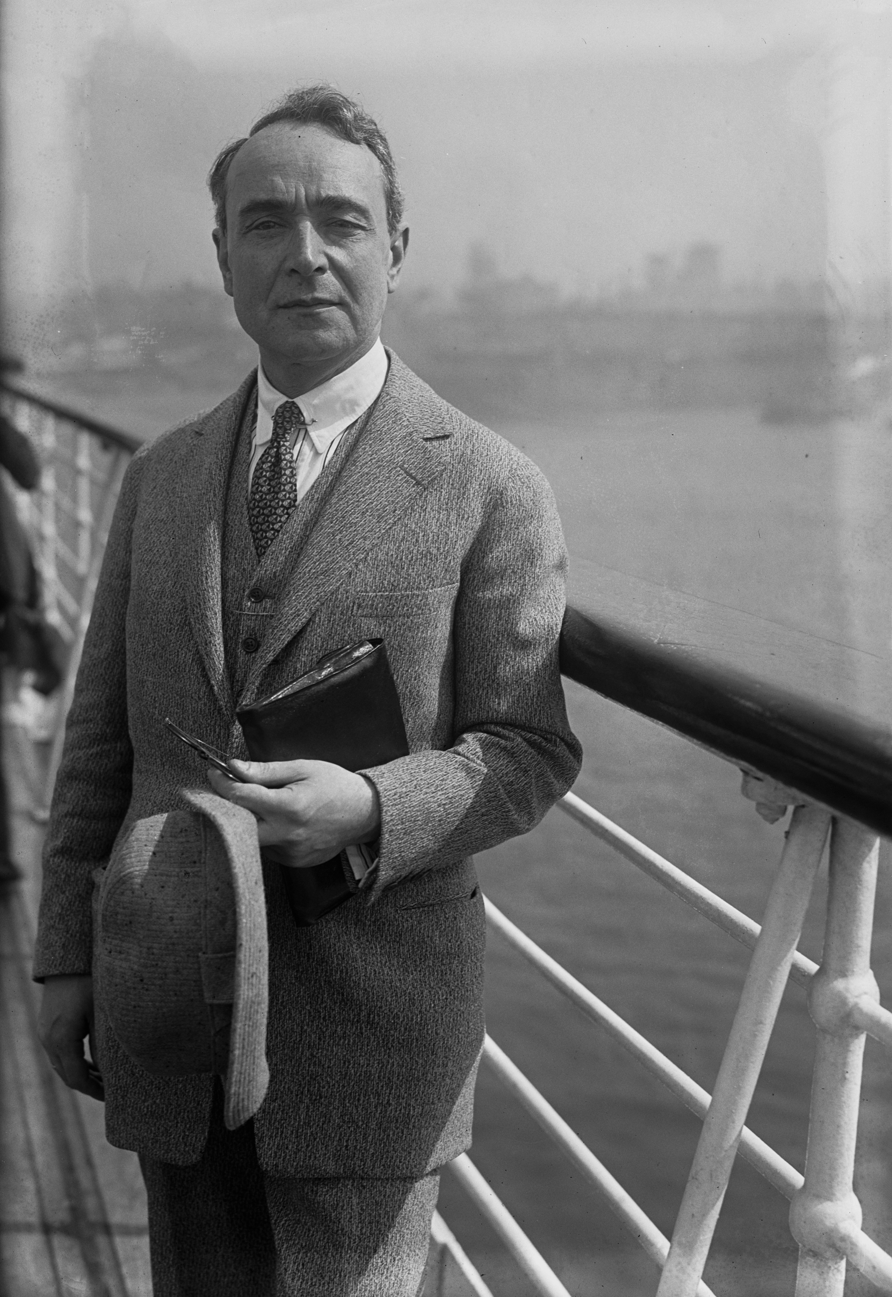 Sergei Koussevitzky (1874 – 1951), Russian conductor